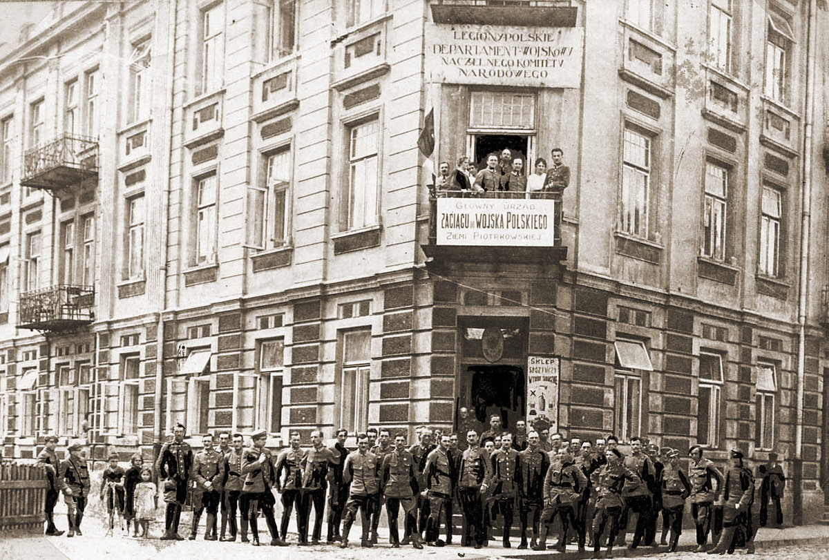 Building of War Departament of Supreme National Committee (NKN) , Piotrków Trybunalski ul Rokszycka 22 (Gabriela Narutowicza).